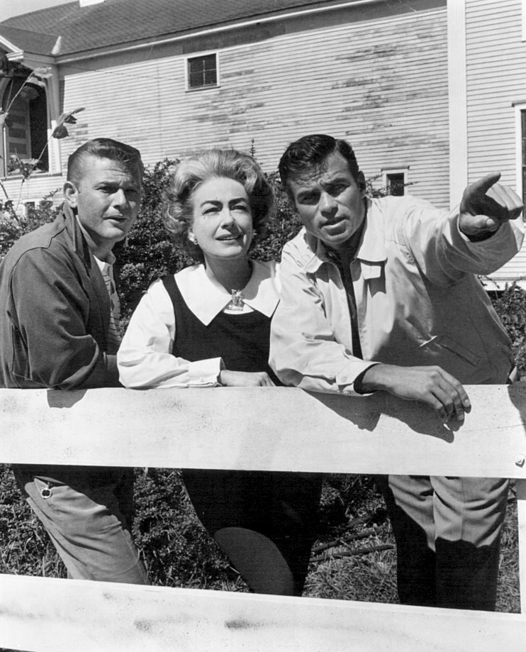 Photo of Martin Milner and Glenn Corbett with guest star Joan Crawford from an episode of Route 66.